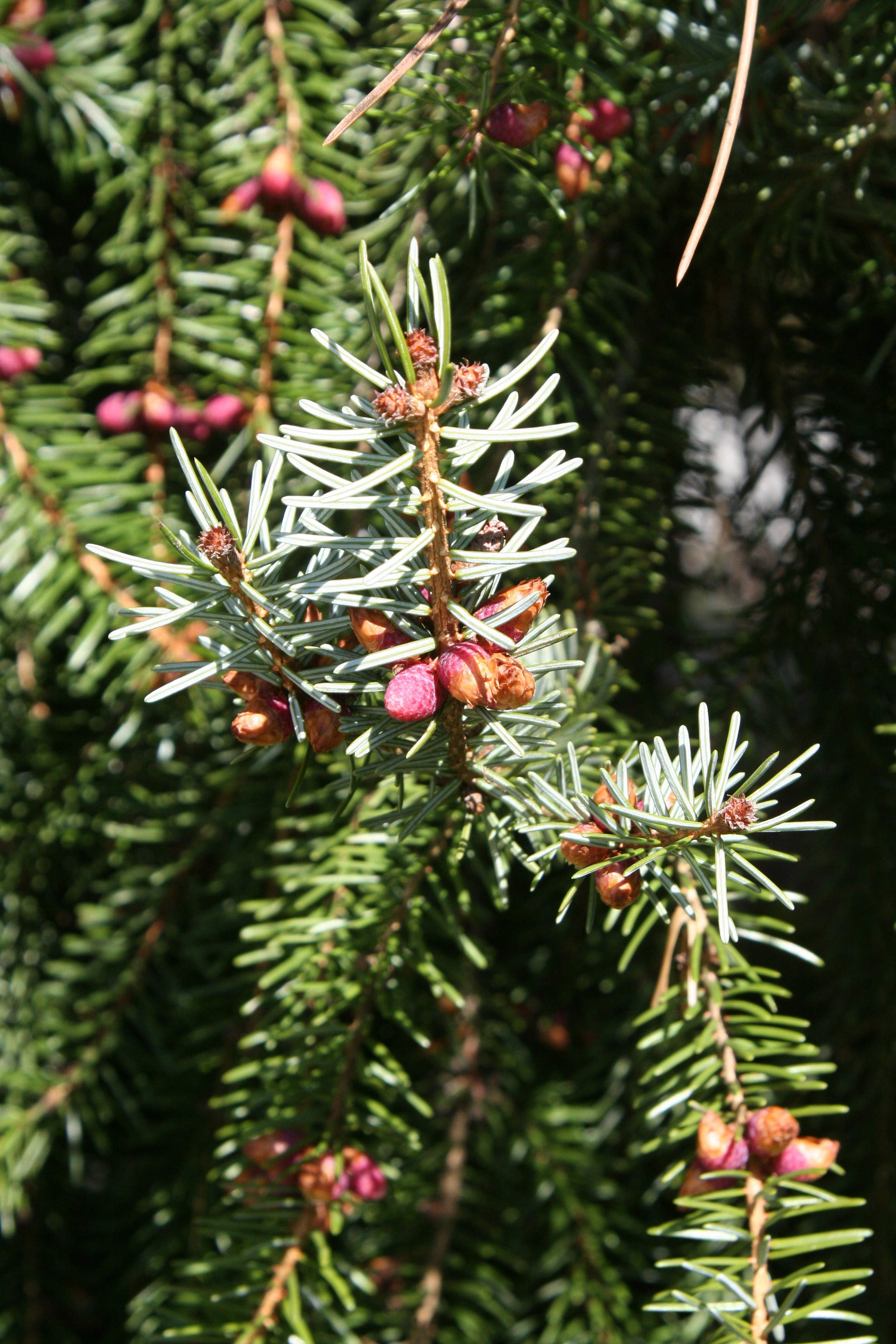 Serbian spruce (Picea omorika), photographed in Weinsberg. Needle leaves and cones